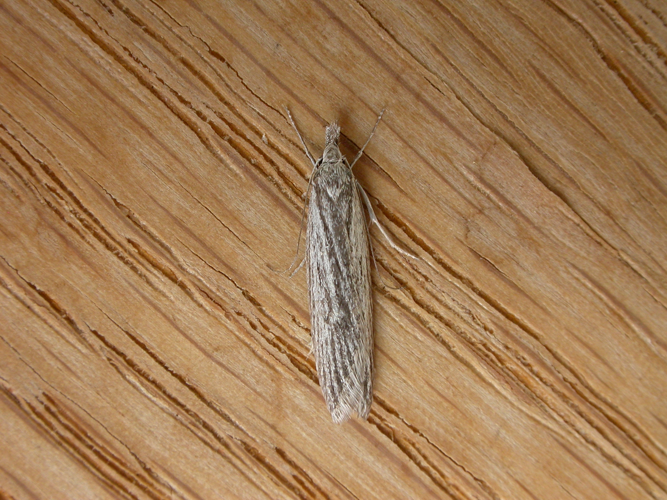 Phryganeutis cinerea Meyrick, 1884, to MV light, Aranda, ACT, 14/15 April 2010